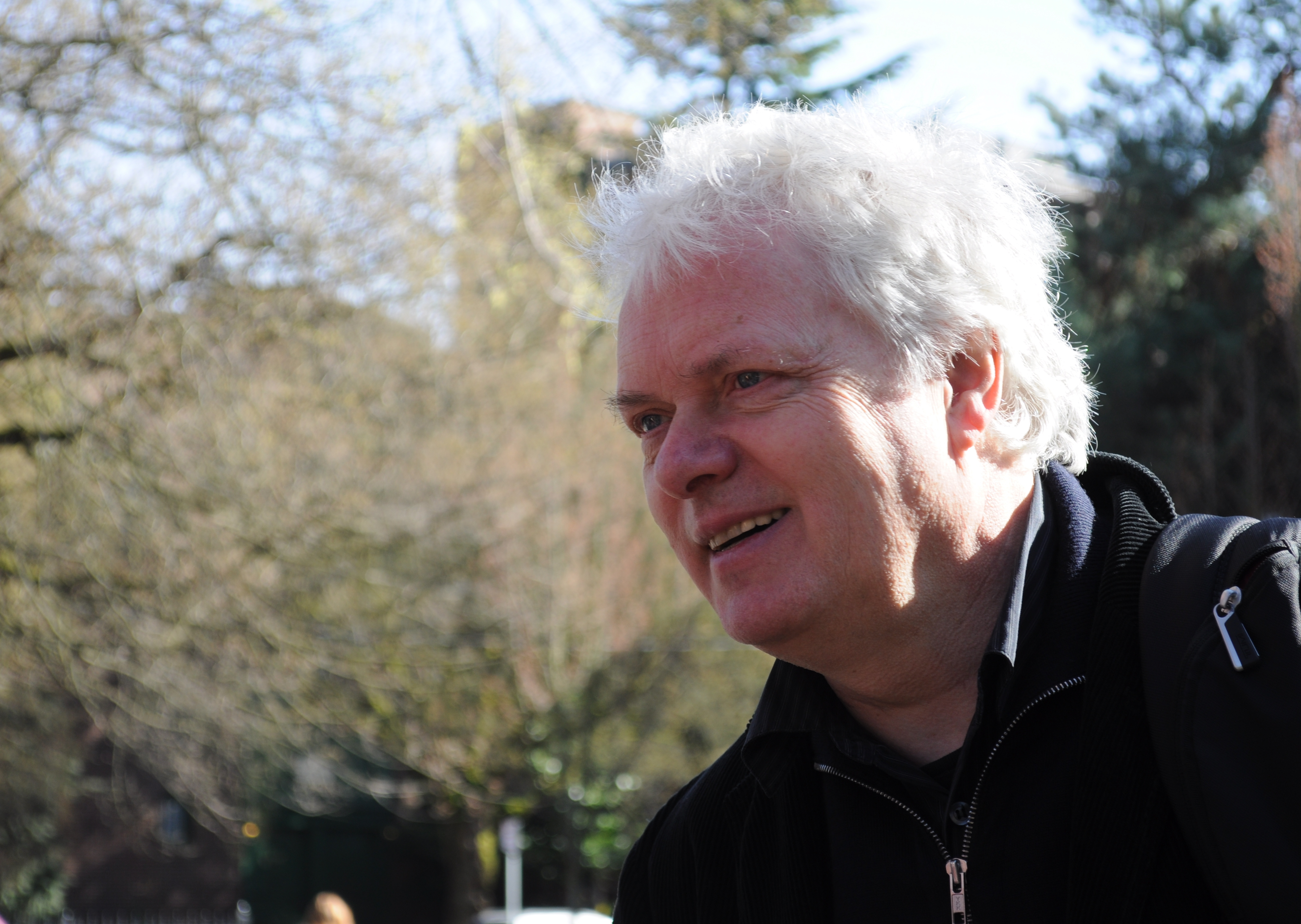 German composer and stage director Heiner Goebbels outside Kerry Hall, Cornish College of the Arts, Capitol Hill, Seattle, Washington.